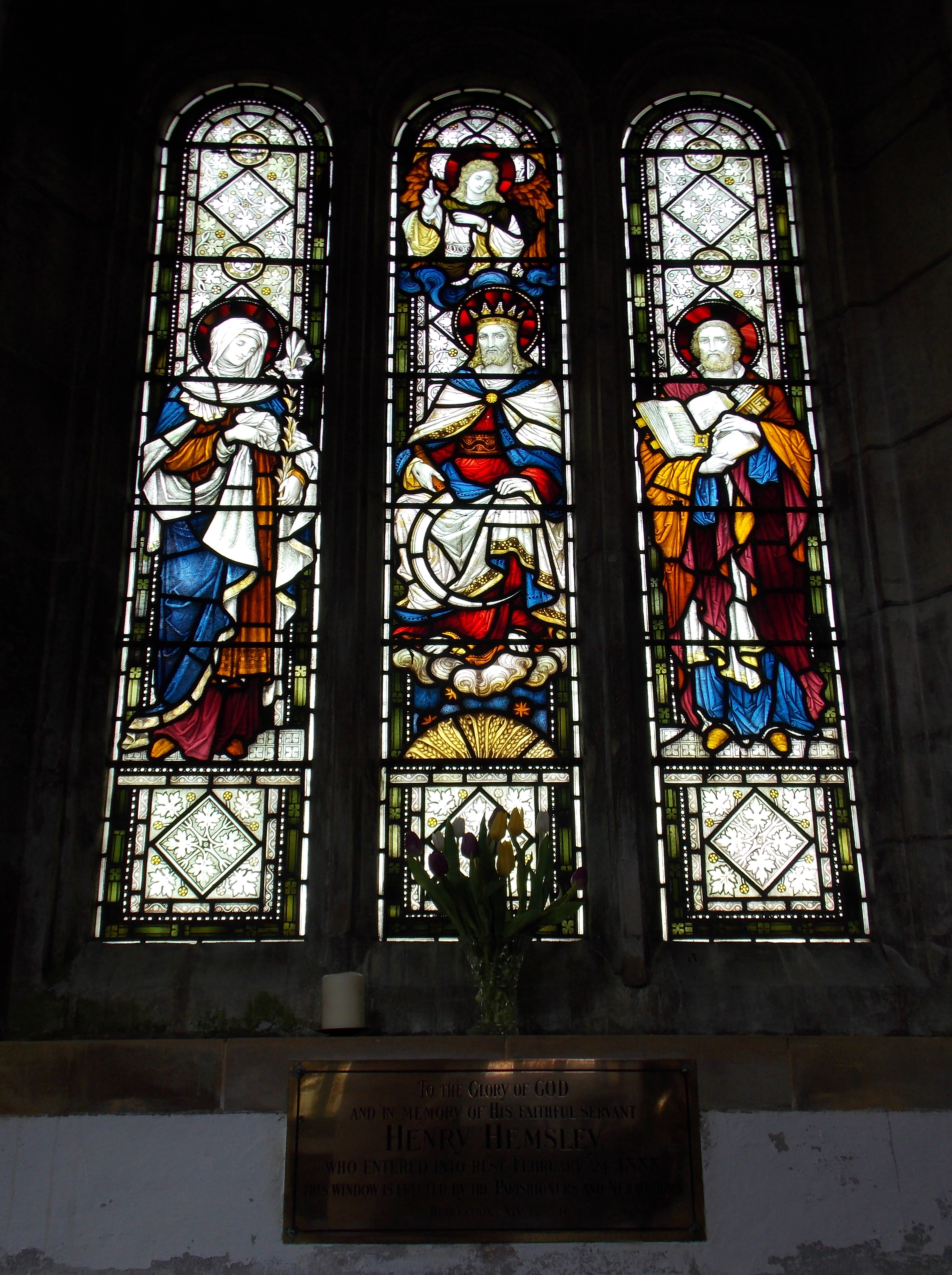 Victorian stained-glass window in the north aisle of the parish church of SS Mary and Peter, Harlaxton, Kesteven, Lincolnshire